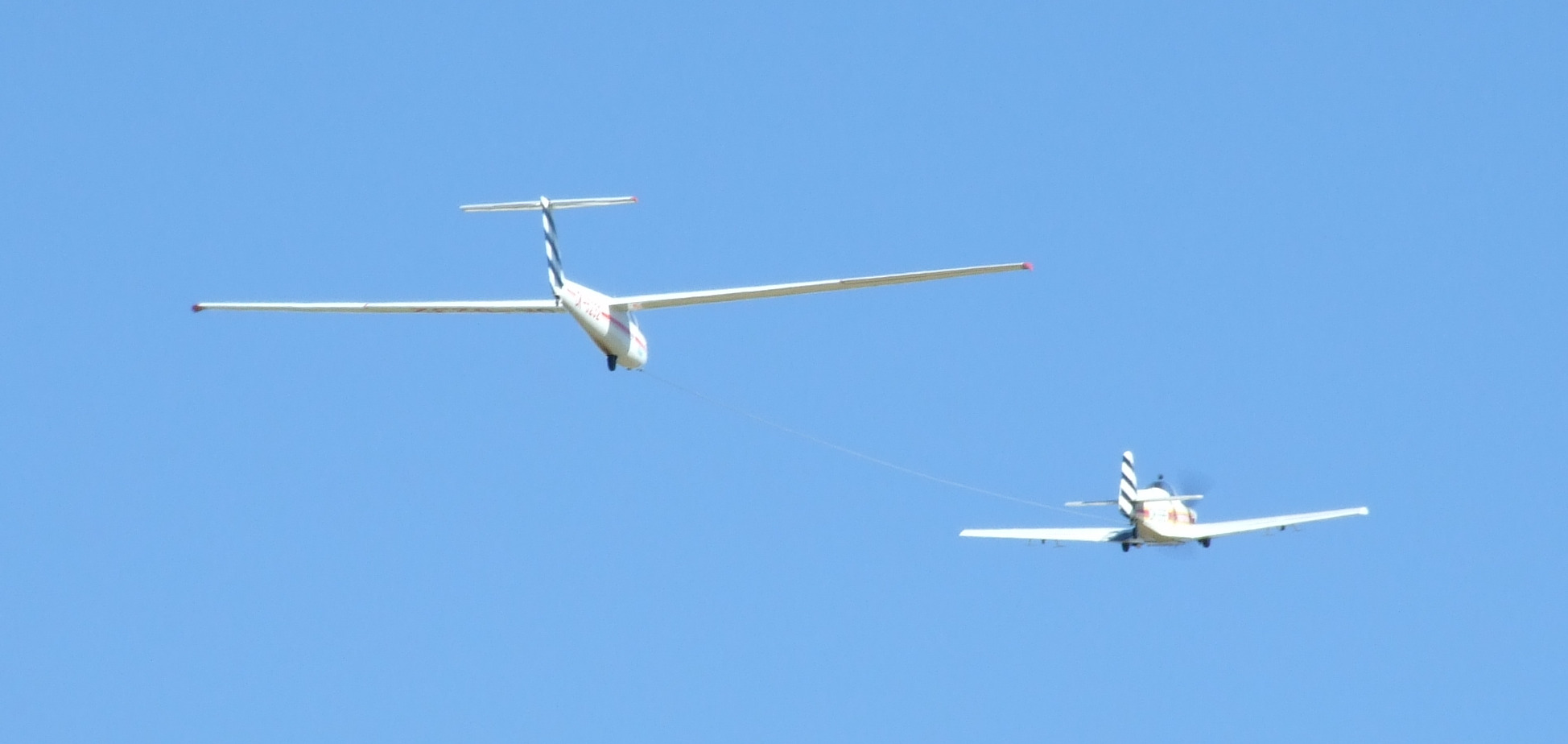 Plane in Prague-Točná, near airfieldhelp